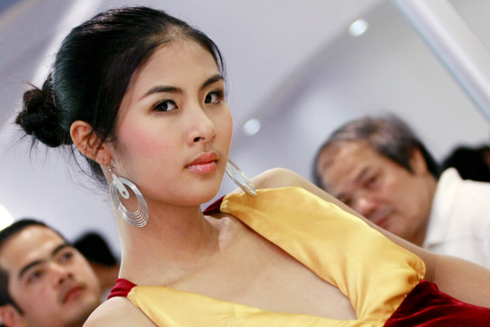 Miss VietNam 2010